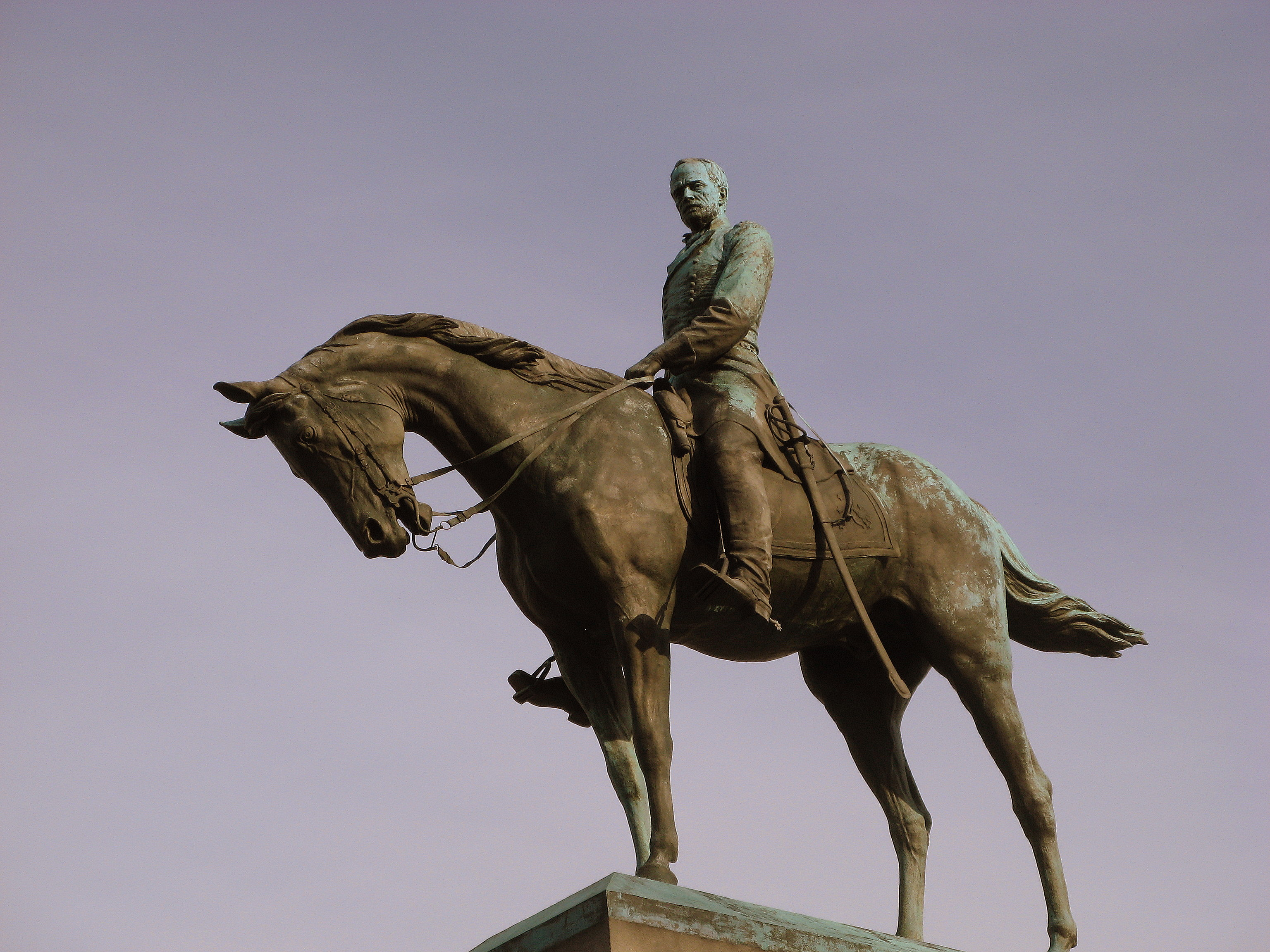 General Sherman Memorial, Washington D.C.